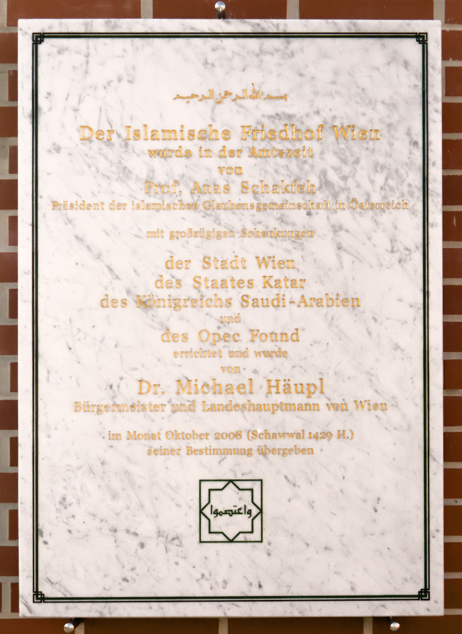 Islamischer Friedhof in Vienna Liesing